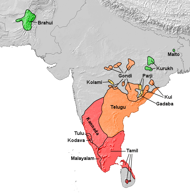 Distribution of the Dravidian languages in South Asia, distinguishing four major subgroups: South (red), South-Central (orange), Central (yellow) and North (green). Krishnamurti, Bhadriraju (2003). The Dravidian Languages, Cambridge University Press, ISBN 0-521-77111-0, Map 1.1, p. 18.